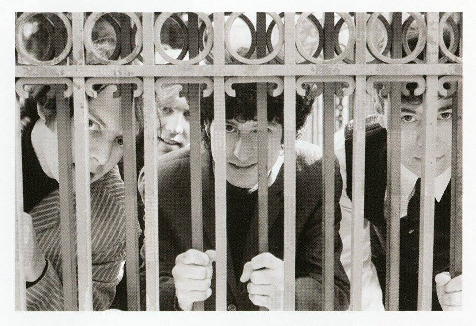 Alec Palao, Matt Carges, Mike Levy & Daniel Swan